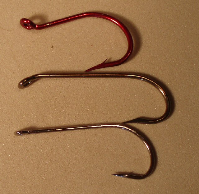 Three Types of Fish Hook Eyes